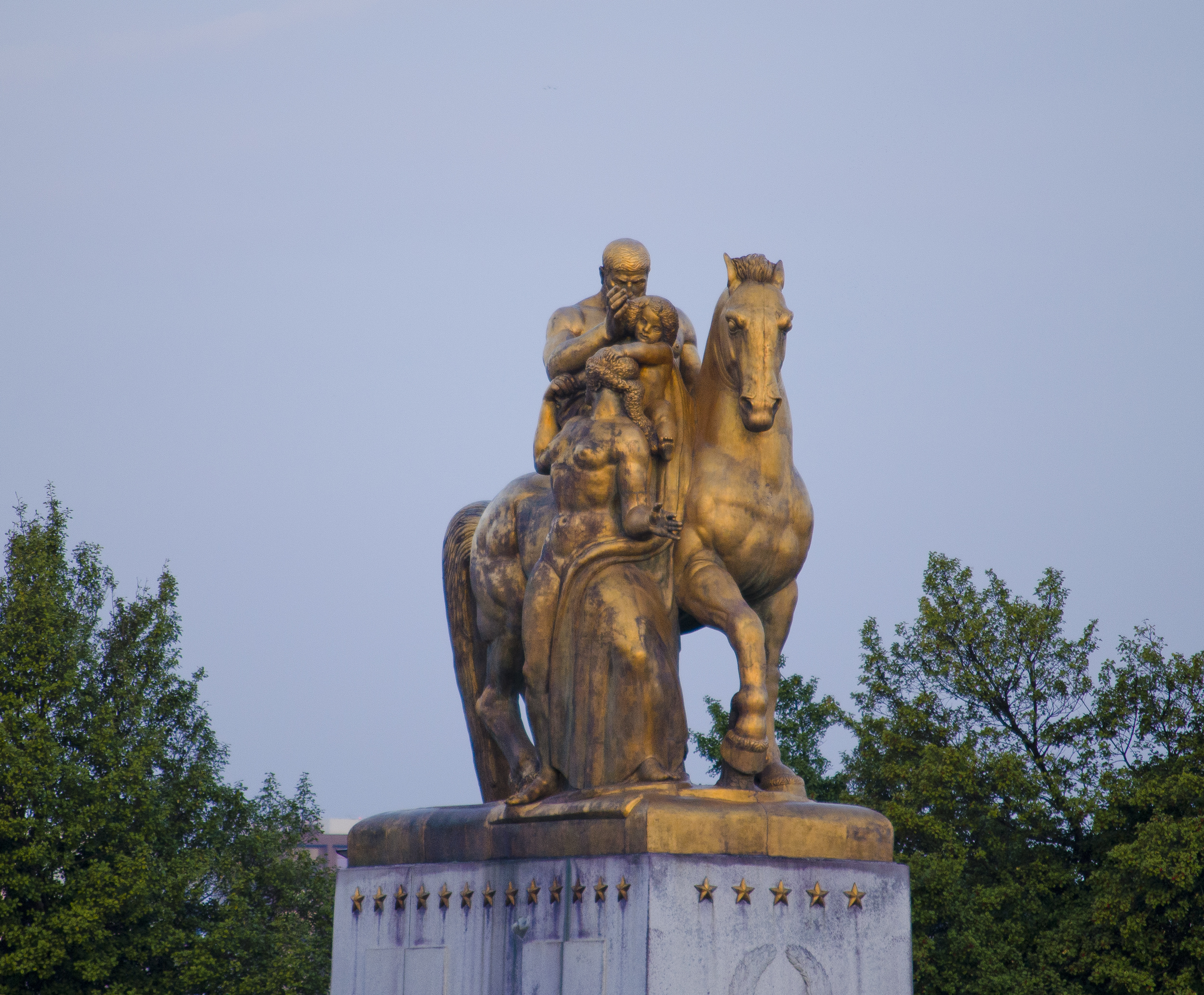 "Sacrifice", one of two sculpture groups which make up The Arts of War, a statuary group which frame the entrance of the Arlington Memorial Bridge in Washington, D.C., in the United States. Commissioned in 1929, they were designed by Leo Friedlander and erected in 1951.